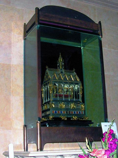 The Saint Stephen's Basilica in Budapest